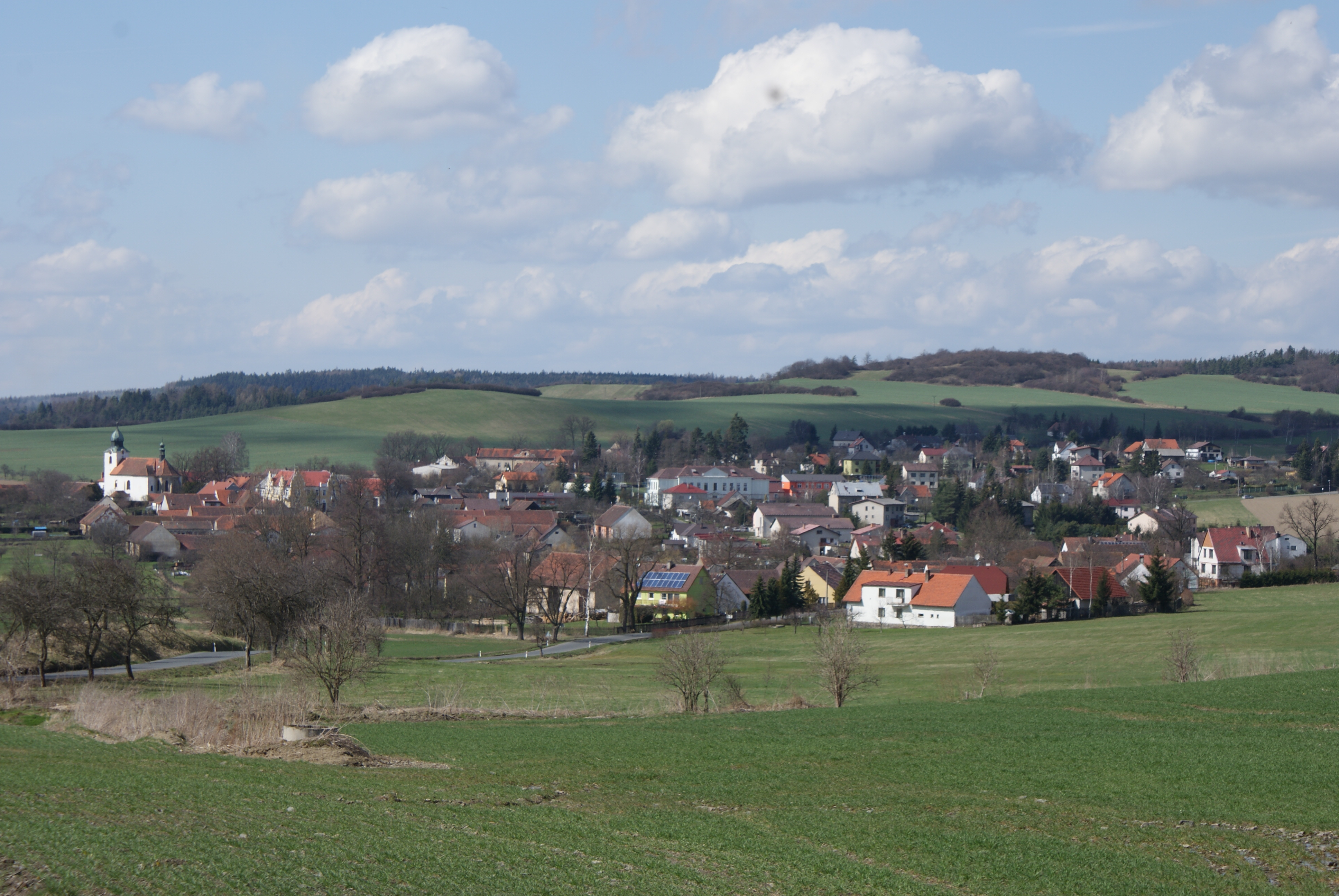 Měčín, town in Klatovy district, Czech Republic.